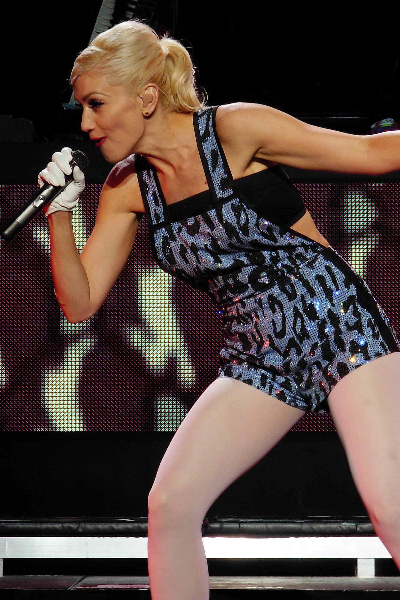 Gwen Stefani performing at the Jones Beach Theatre in Wantagh, New York, United States